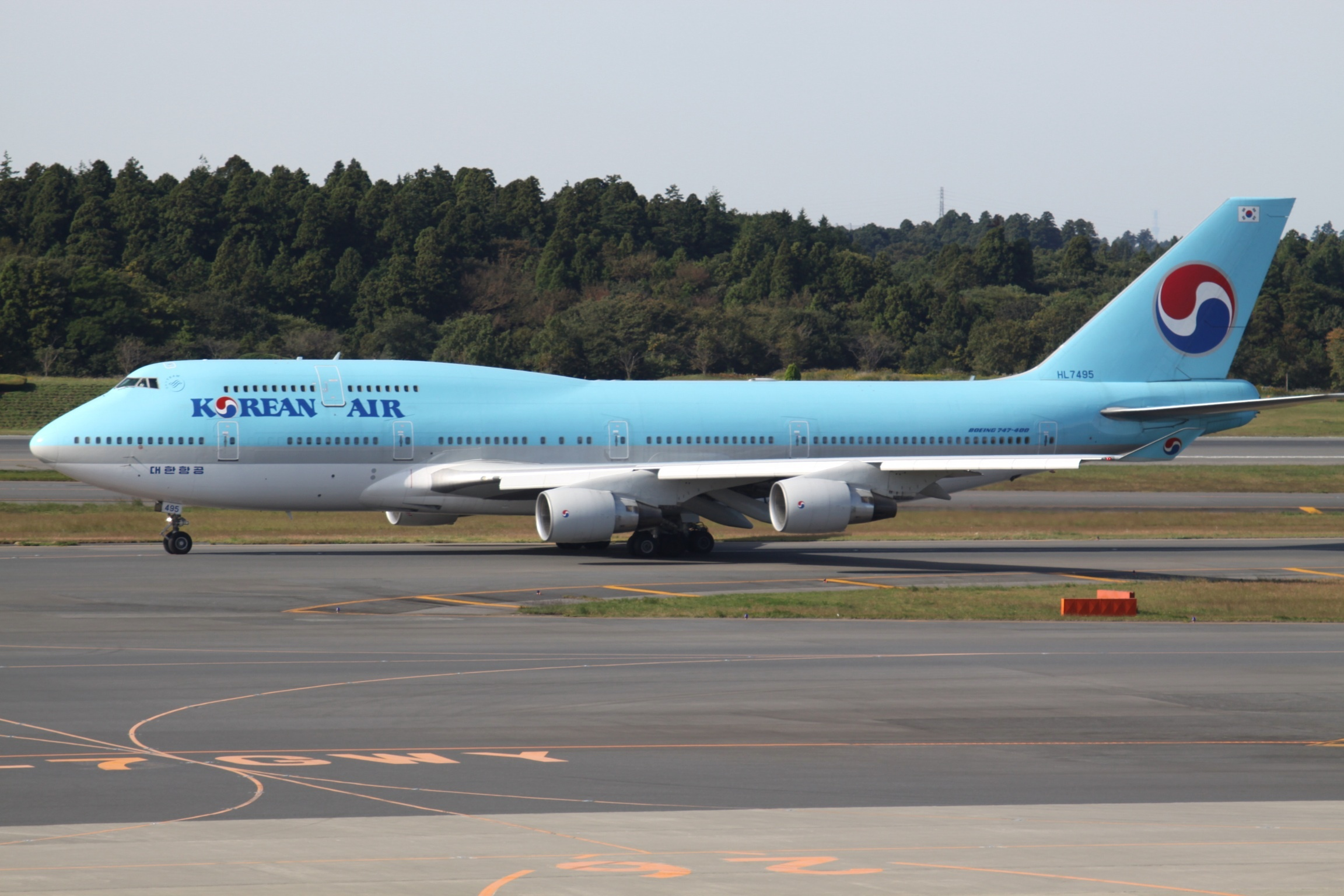 At Tokyo Narita International